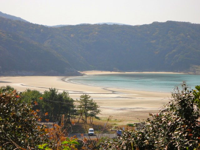 The beaches of Shinkamigoto are very popular and famous. This is a photo of Hamagurihama (Clam Beach) in Arikawa, taken from the Arikawa sports park.